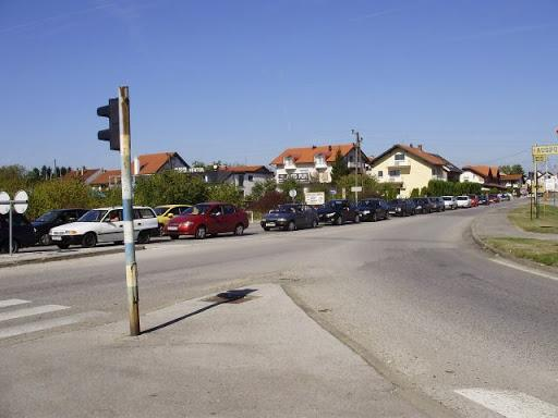 Velika Mlaka